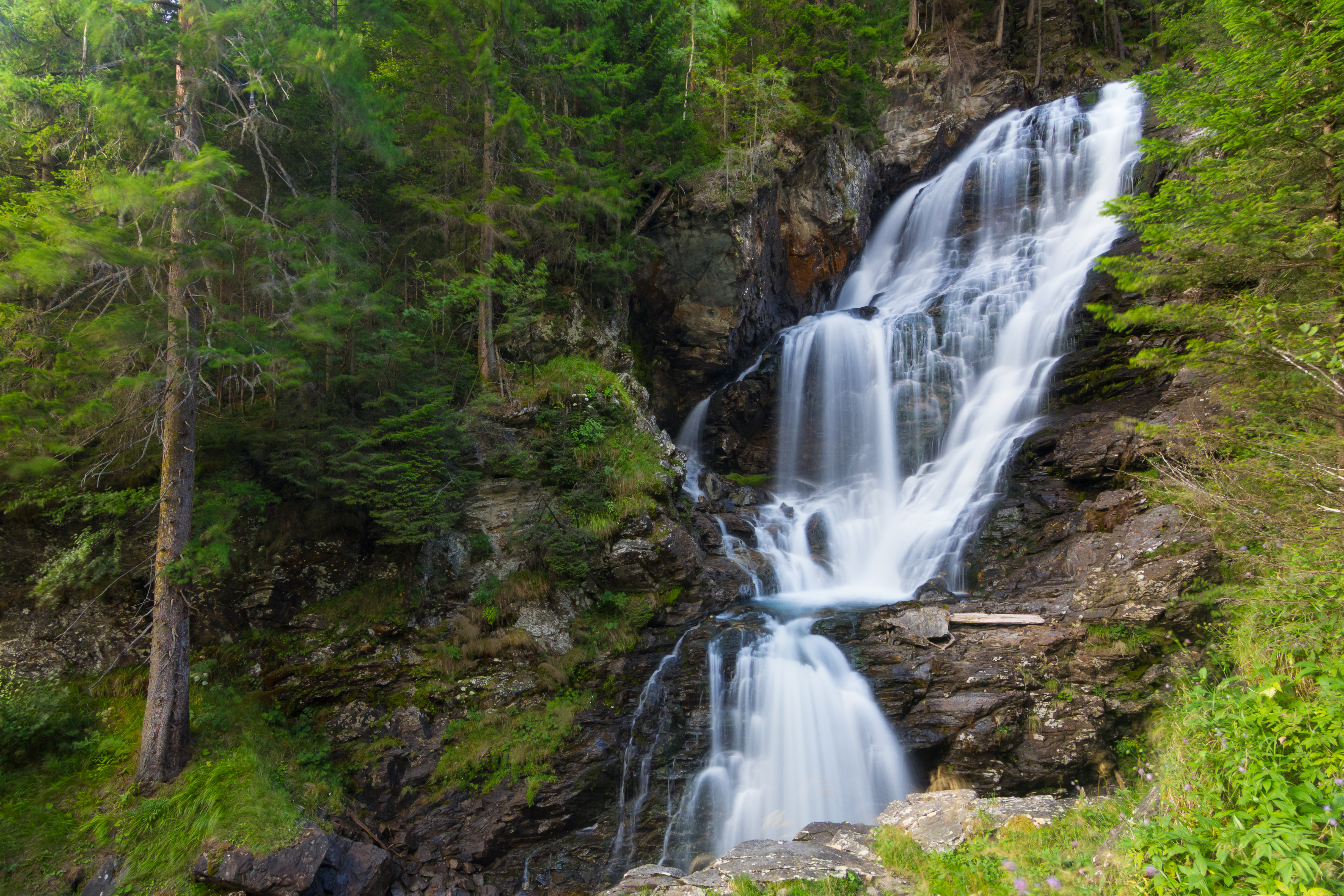 This is the lower parts of Riesachfall in Styria, Austria next to Schladming in the Alps.